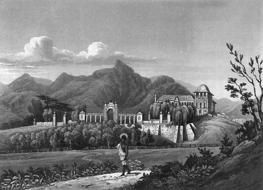 View of the Palace of Sao Cristovao in Rio de Janeiro.